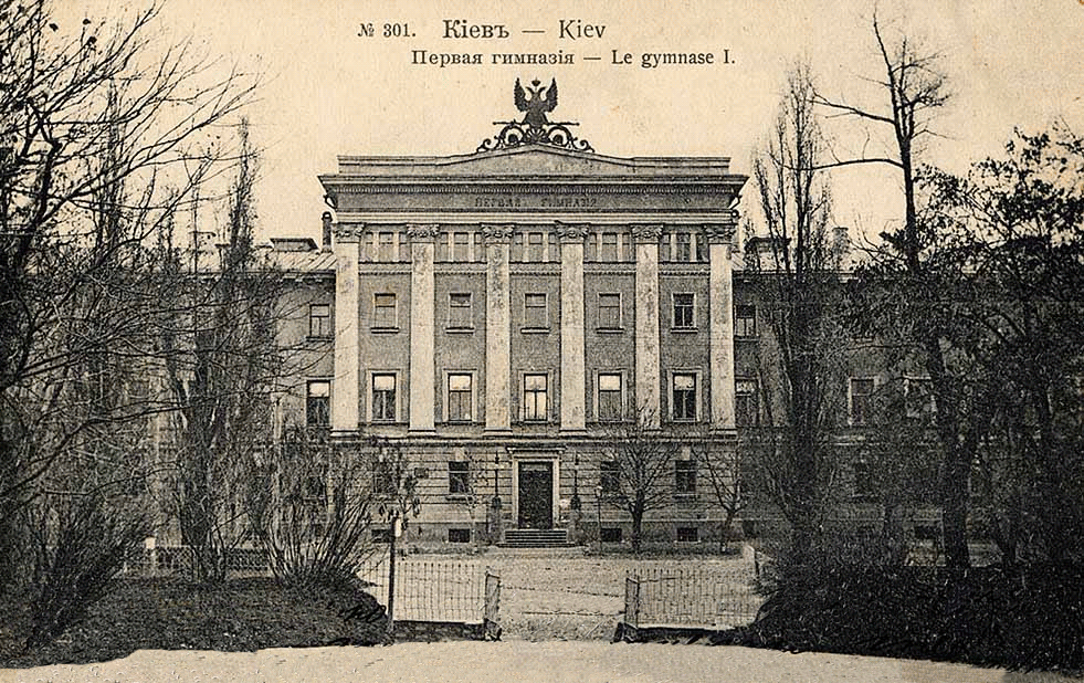 1-st-Kiev-gymnasium